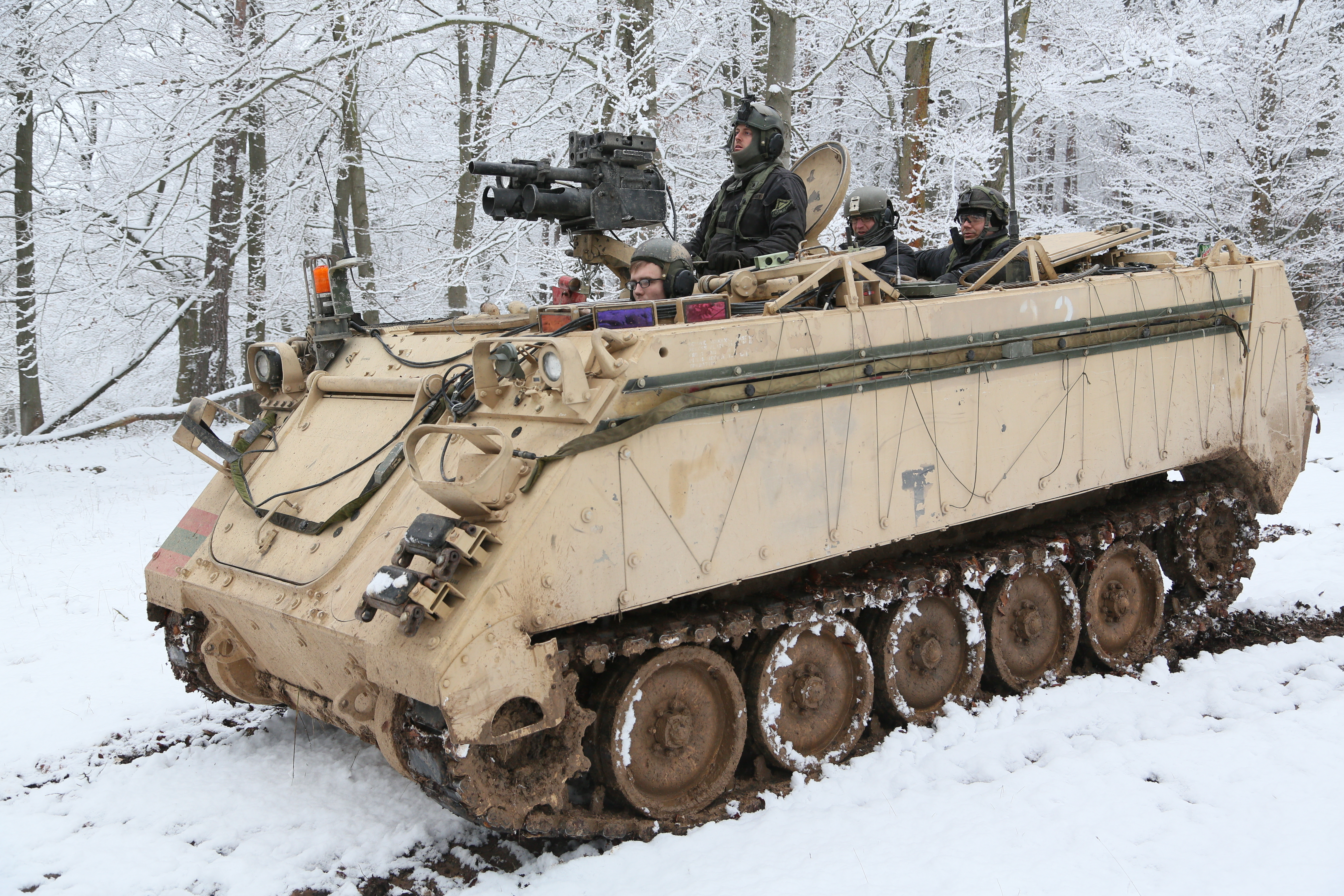 A U.S. Army M113 Armored Personnel Carrier of 1st Battalion, 4th Infantry Regiment provides an over watch while conducting recon operations during exercise Allied Spirit at the Joint Multinational Readiness Center in Hohenfels, Germany, Jan. 26, 2015. Exercise Allied Spirit includes more than 2,000 participants from Canada, Hungary, Netherlands, United Kingdom, and the U.S. Allied Spirit is exercising tactical interoperability and testing secure communications within Alliance members. (U.S. Army photo by Spc. Tyler Kingsbury/Released)